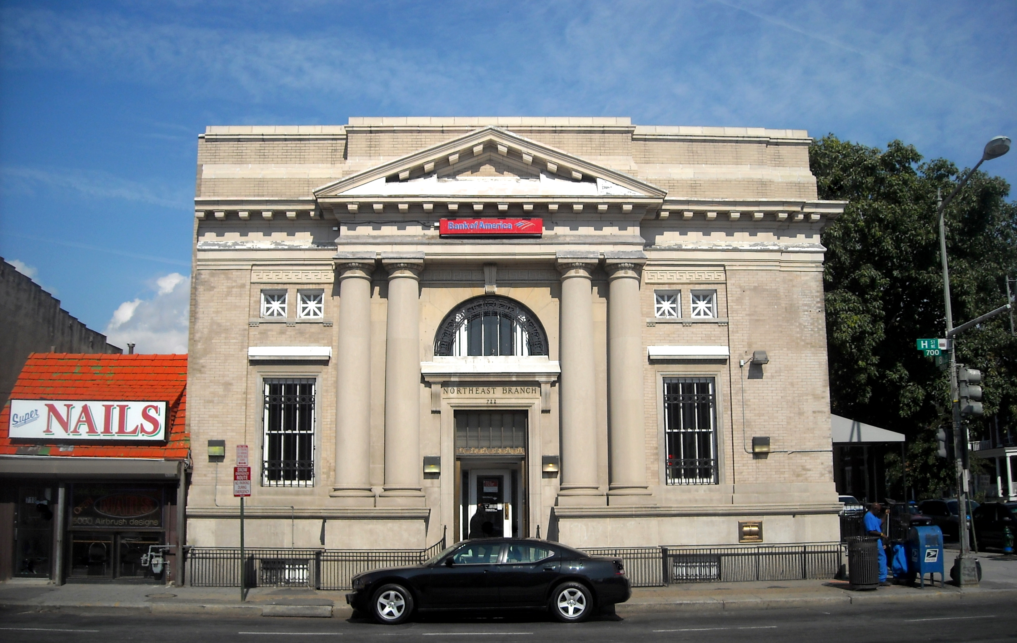 A Bank of America branch located at 722 H Street, N.E., in the Near Northeast neighborhood of Washington, D.C. Built in 1912 by the Melton Construction Company (on land previously occupied by the residences of Daniel Olin Leech, a physician, and Lena Beuchert), the neoclassical bank was designed by prominent, local architect Appleton P. Clark. The building originally served as the North Branch of Home Savings Bank, which merged with the American Security and Trust Company in 1918. A 1935 addition to the building, which nearly doubled its size, was also designed by Clark.